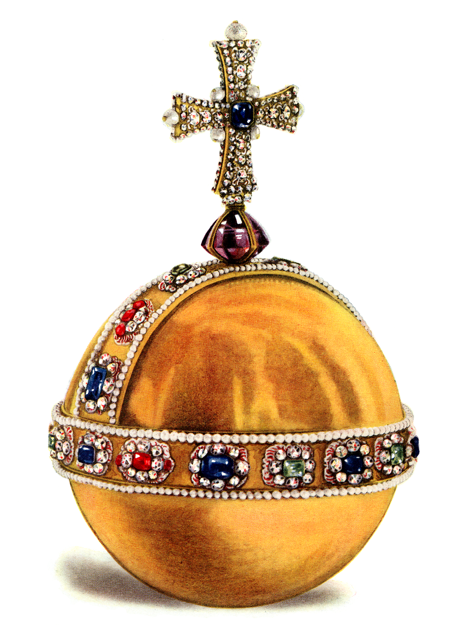 The Sovereign's Orb